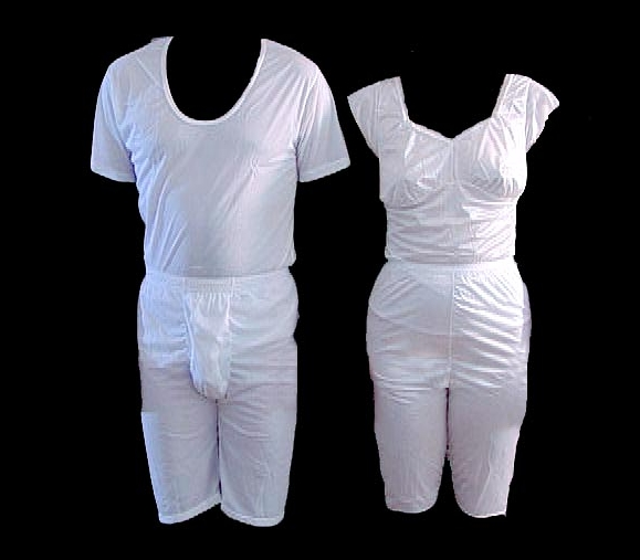 The Church of Jesus Christ of Latter-day Saints temple garments. Post-1979 two-piece temple garments end just above the knee for both sexes. Women's garments have cap sleeves with either a rounded or sweetheart neckline. Male tops are available in tee-shirt styles. This work is free and may be used by anyone for any purpose. If you wish to use this content, you do not need to request permission as long as you follow any licensing requirements mentioned on this page.